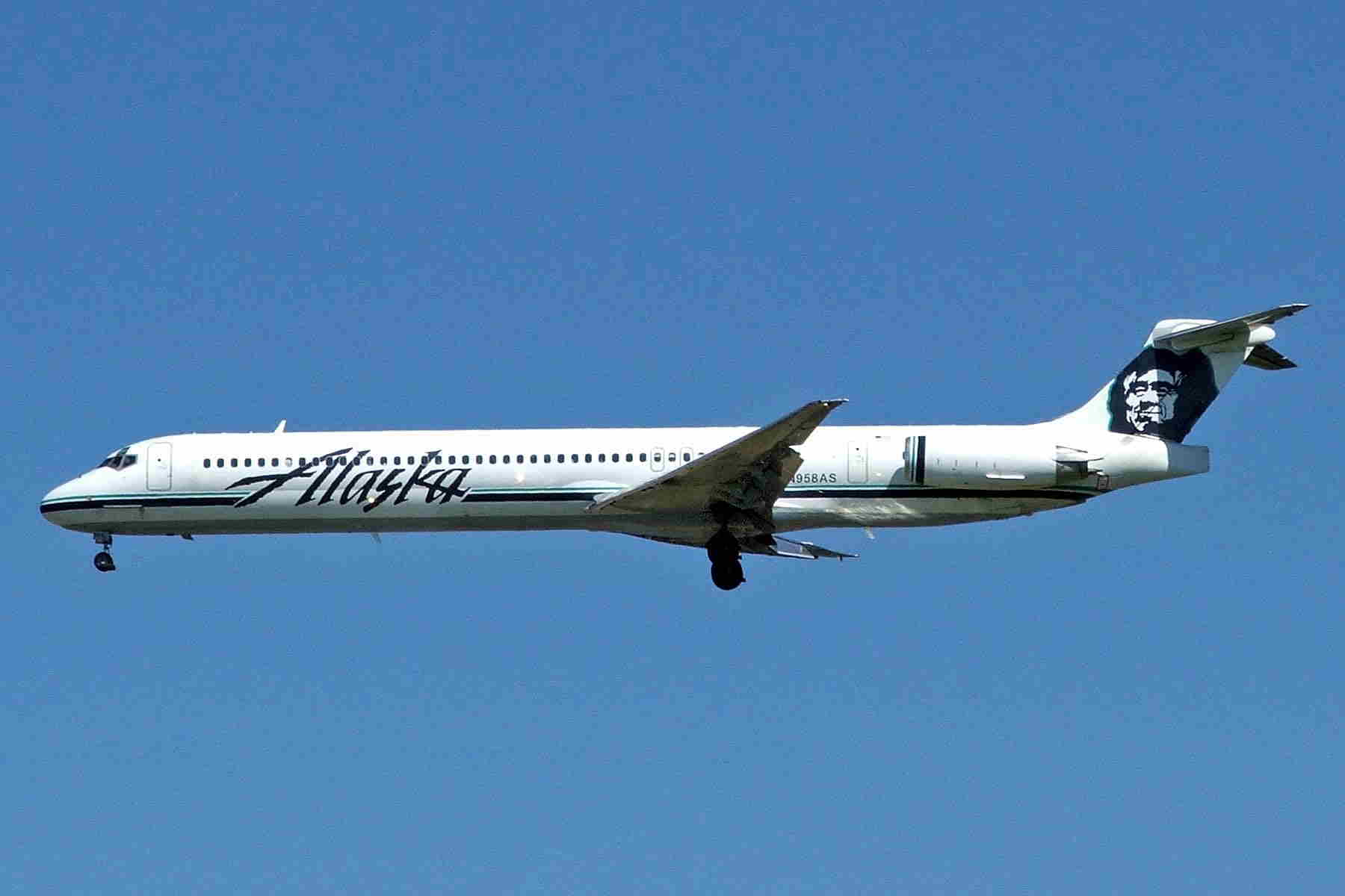 A picture of an airplane